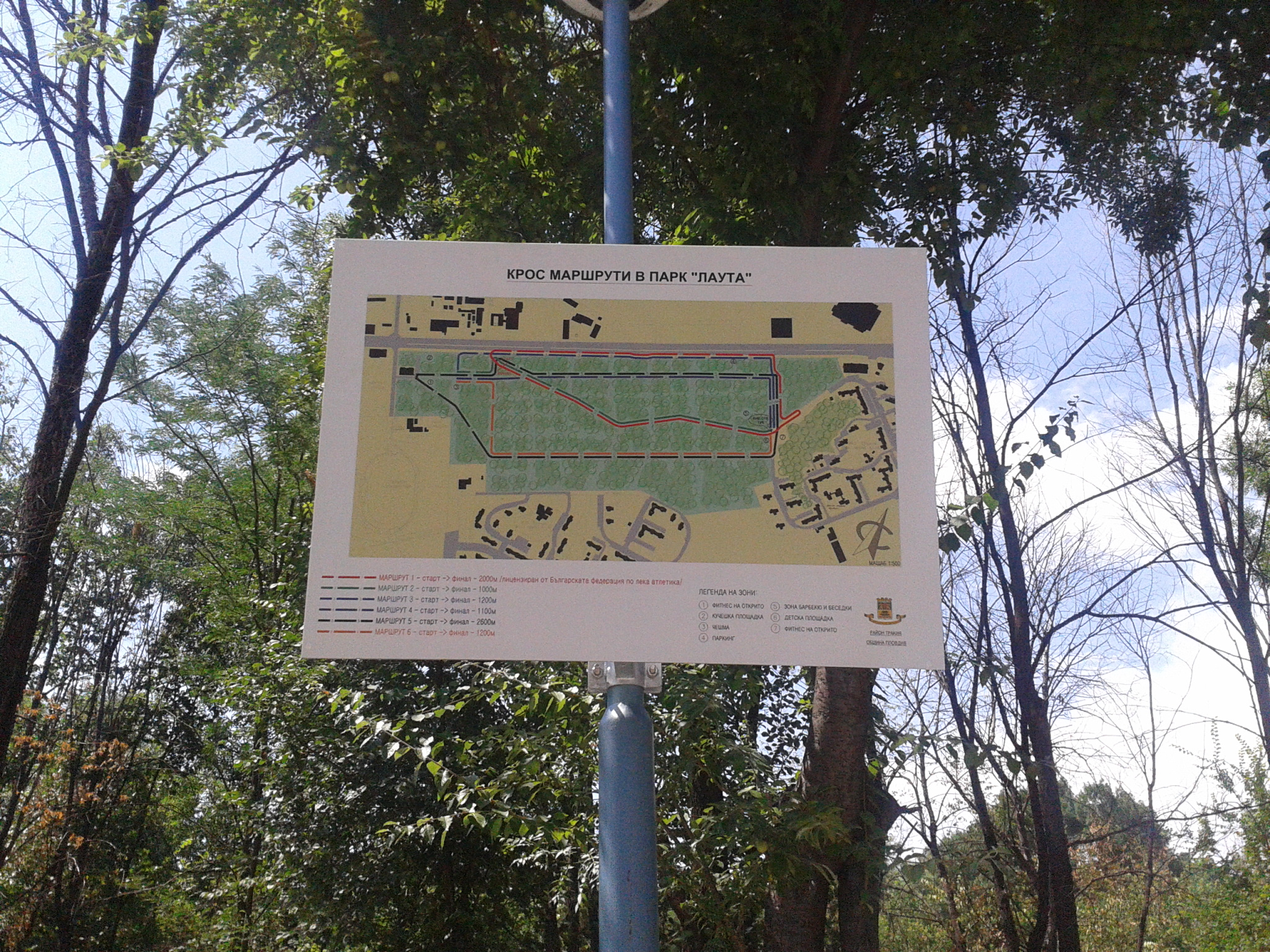 Lauta Park - Plovdiv